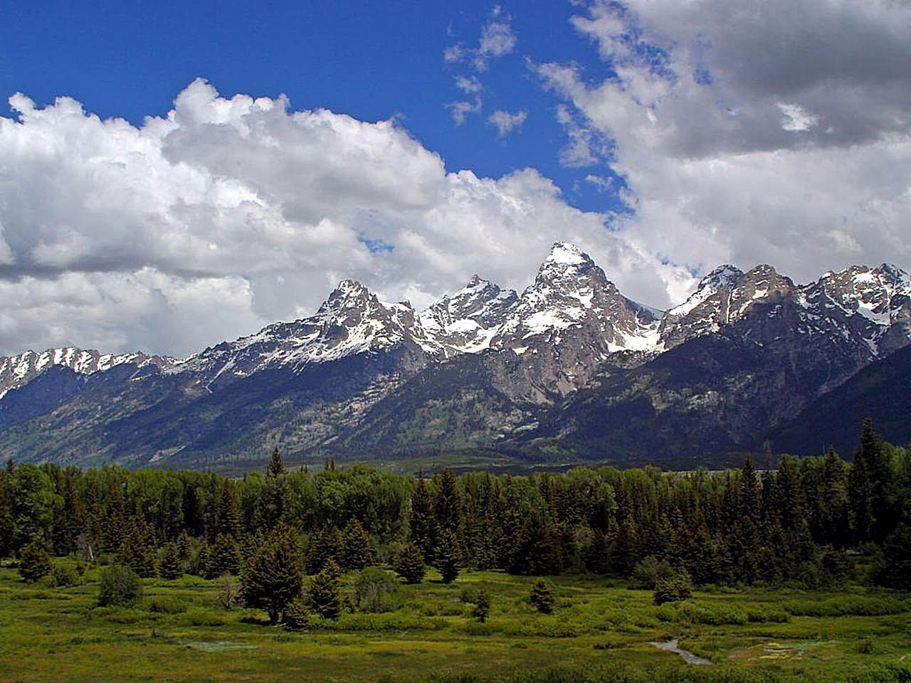 Image title: Grand teton national reserve Image from Public domain images website